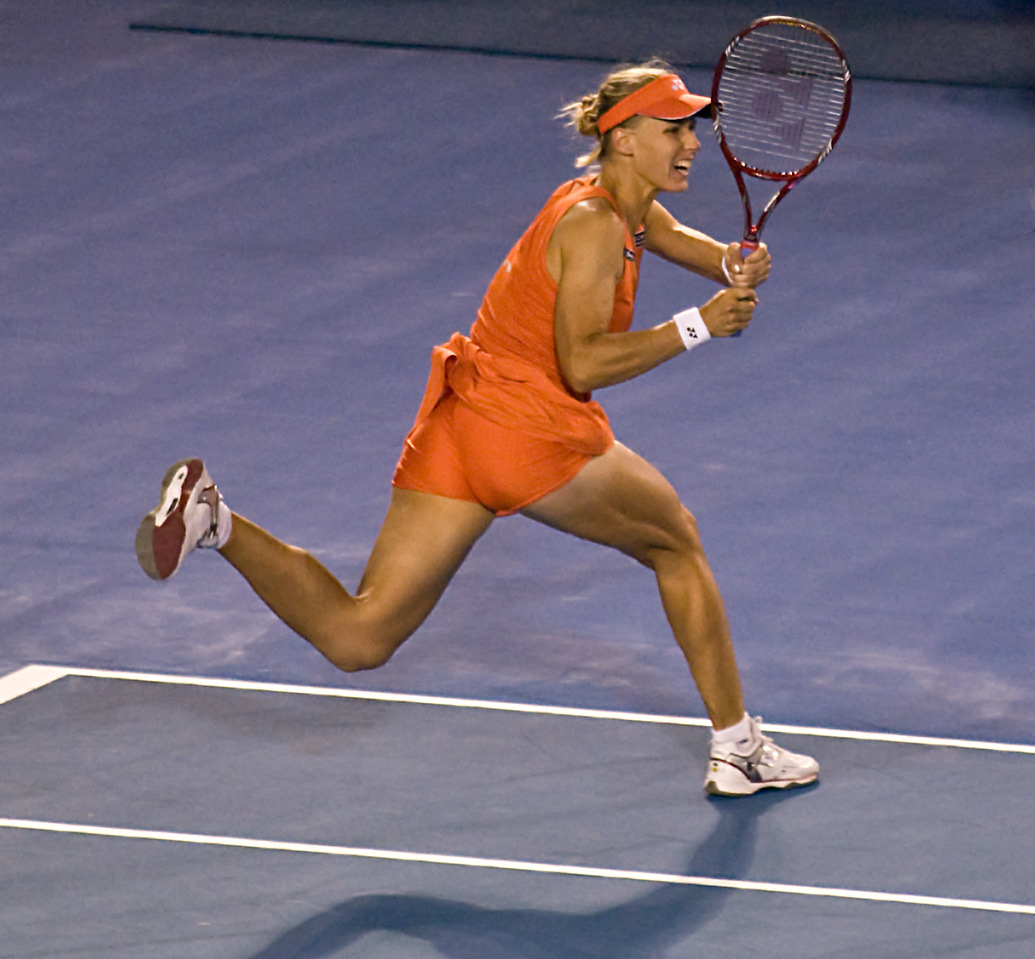 Elena Dementieva at 2009 Australian Open, Melbourne, Australia